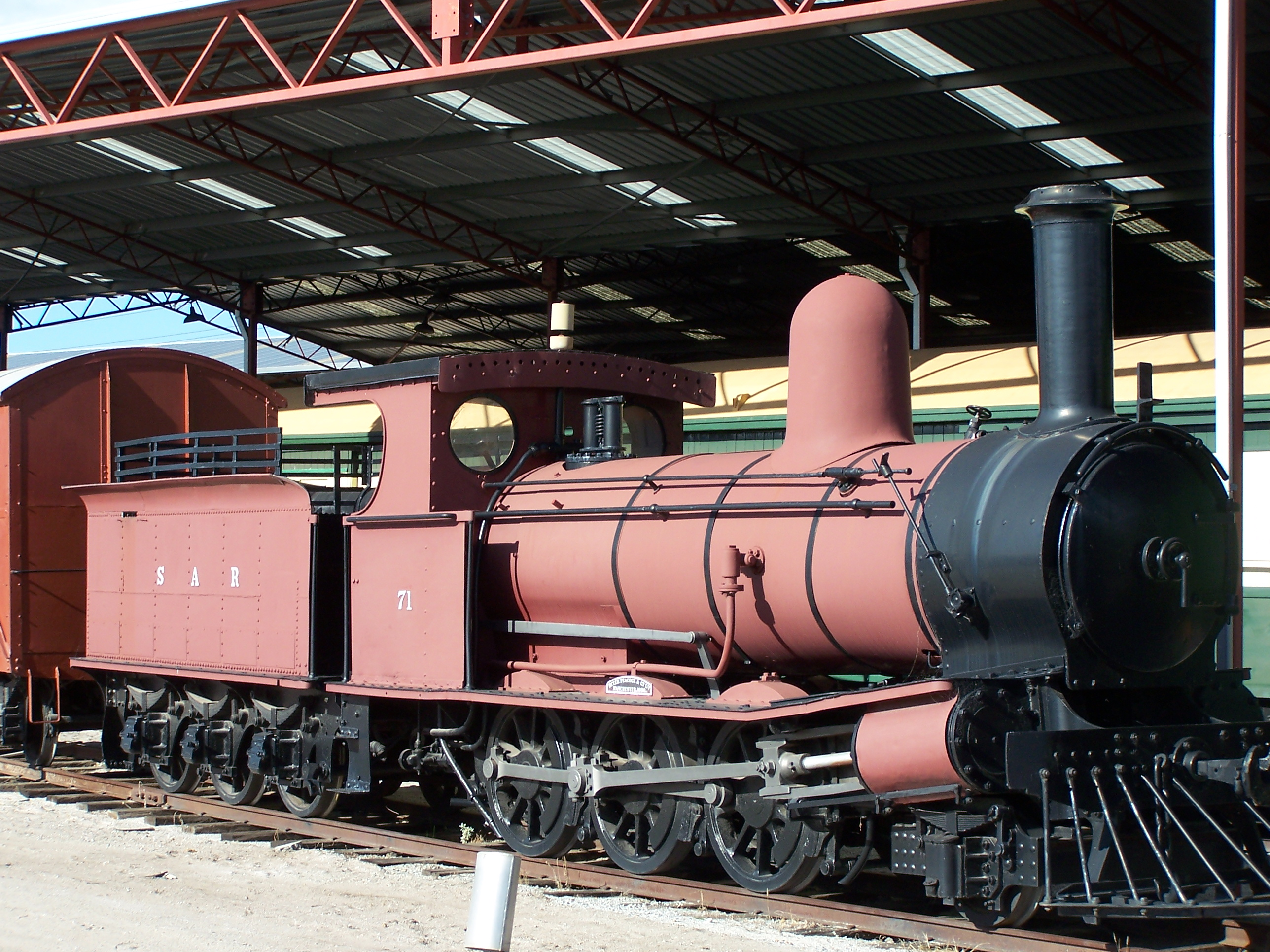 Western Australian Rail Transport Museum - Bassendean WA. This Locomotive is painted with South Australian Railways logo.